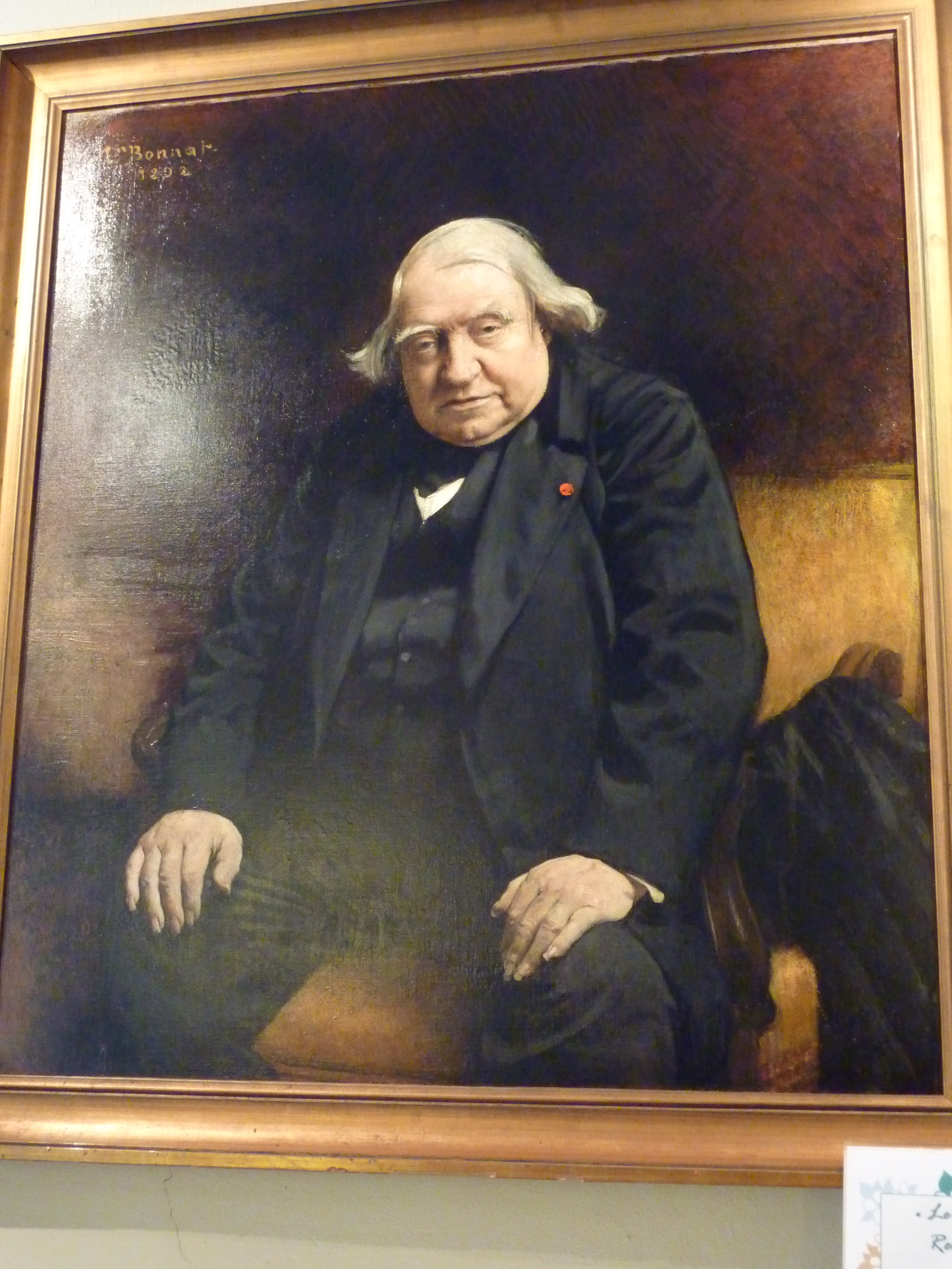 Portrait of Ernest Renan